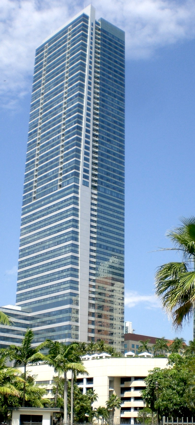 Four Seasons Hotel Miami. Photo taken by Marc Averette